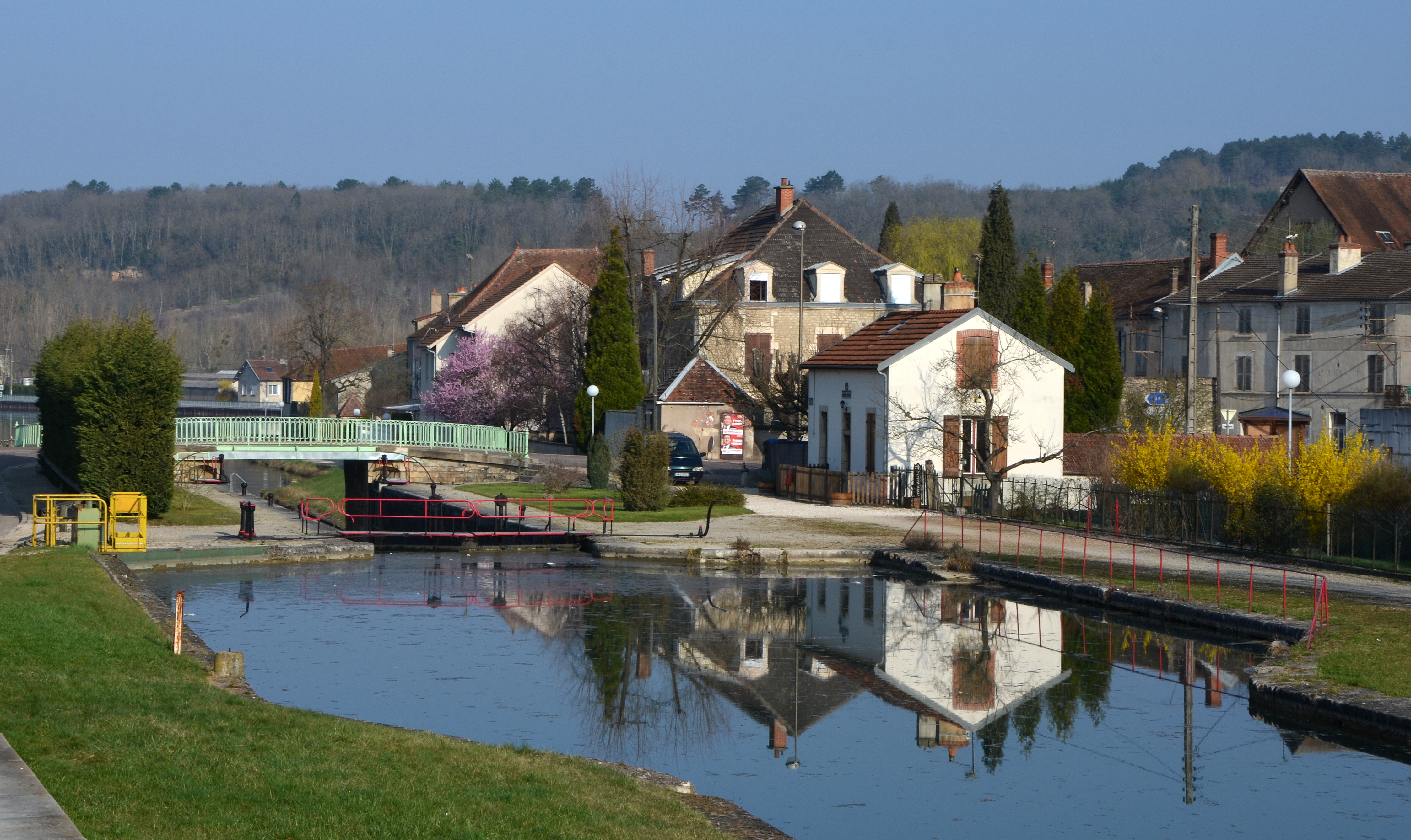 Lock in Montbard, canal of Burgundy, France